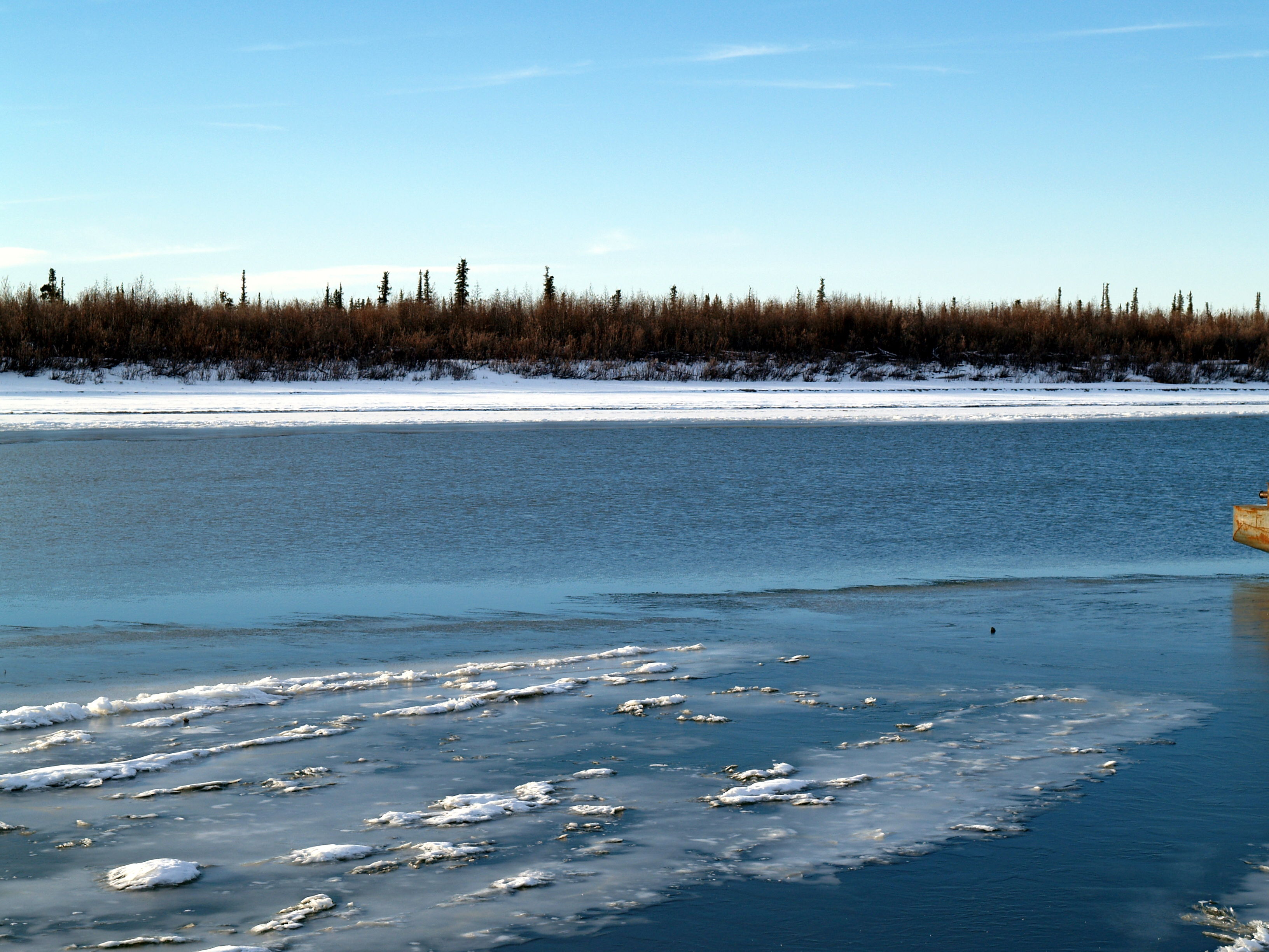 This part of the Mackenzie River is still flowing strong.